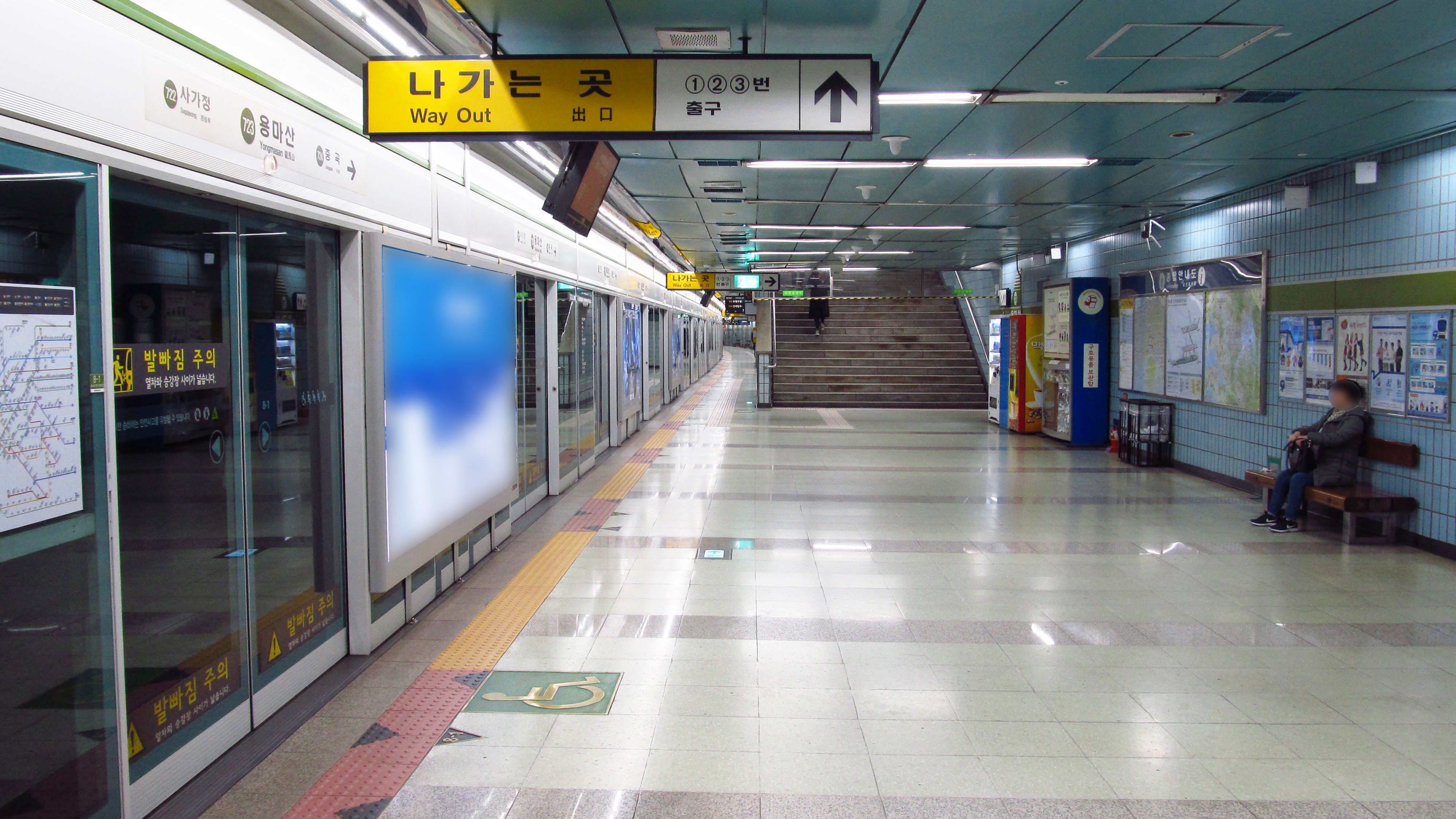 The platform at Yongmasan Station on Seoul Subway Line 7 in Jungnang-gu, Seoul, Republic of Korea(South Korea)